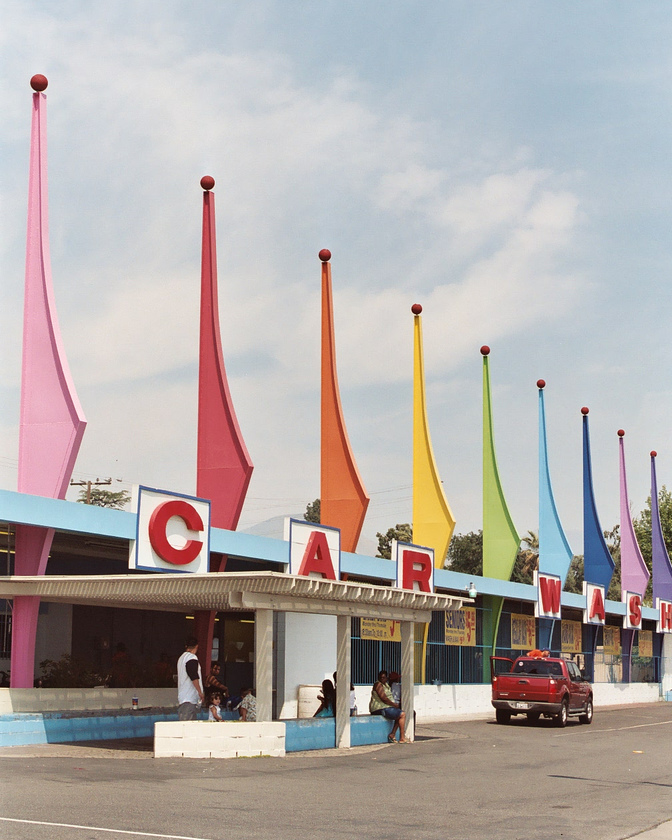 Sparkle Car Wash, in San Bernardino, California, United States, is an example of Googie architecture.